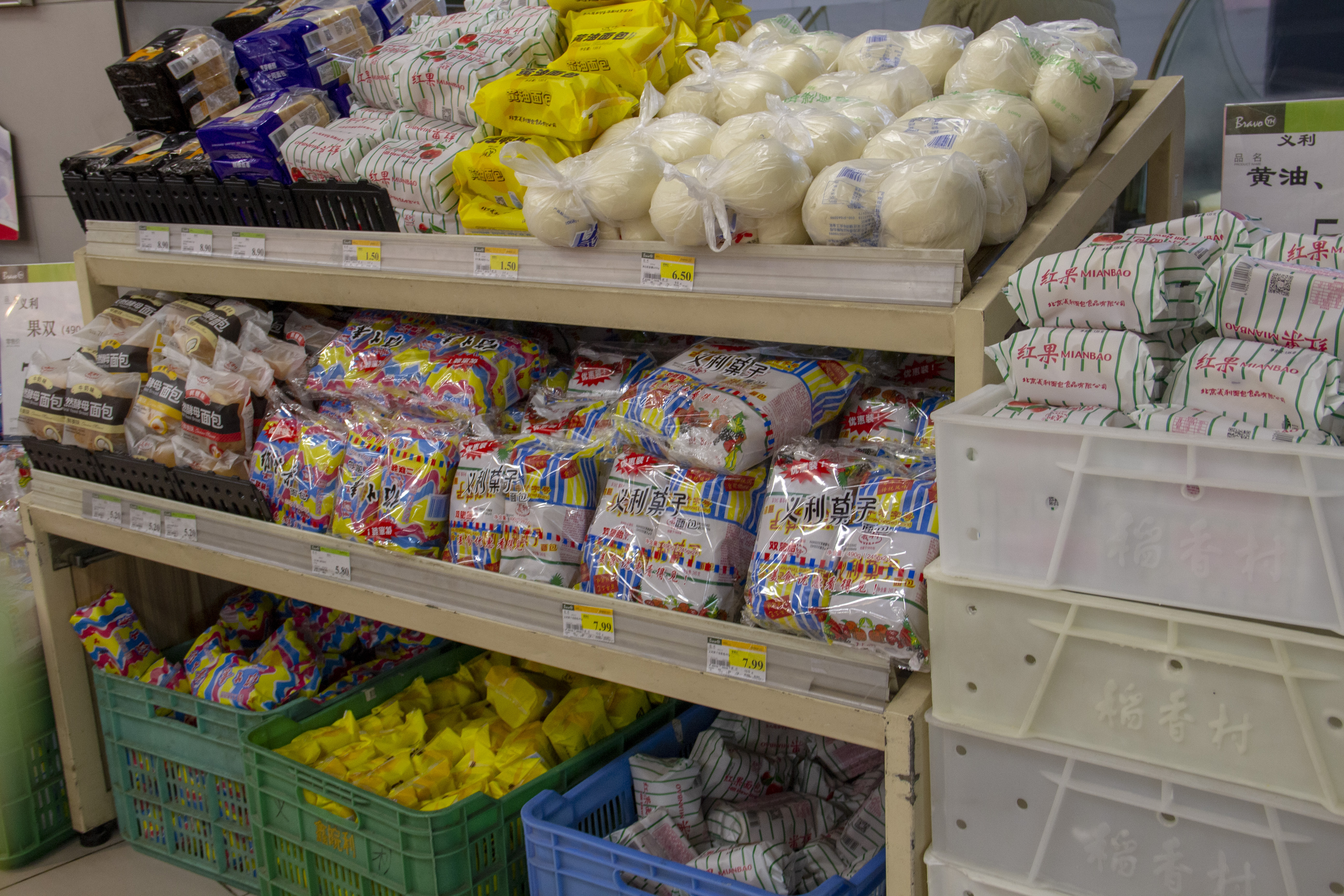 Yi Li bread on a shelf